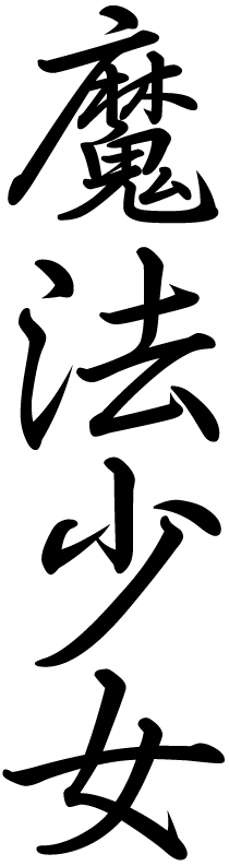 Mahō shōjo (魔法少女) in Japanese. Font used: Epson Gyosho.